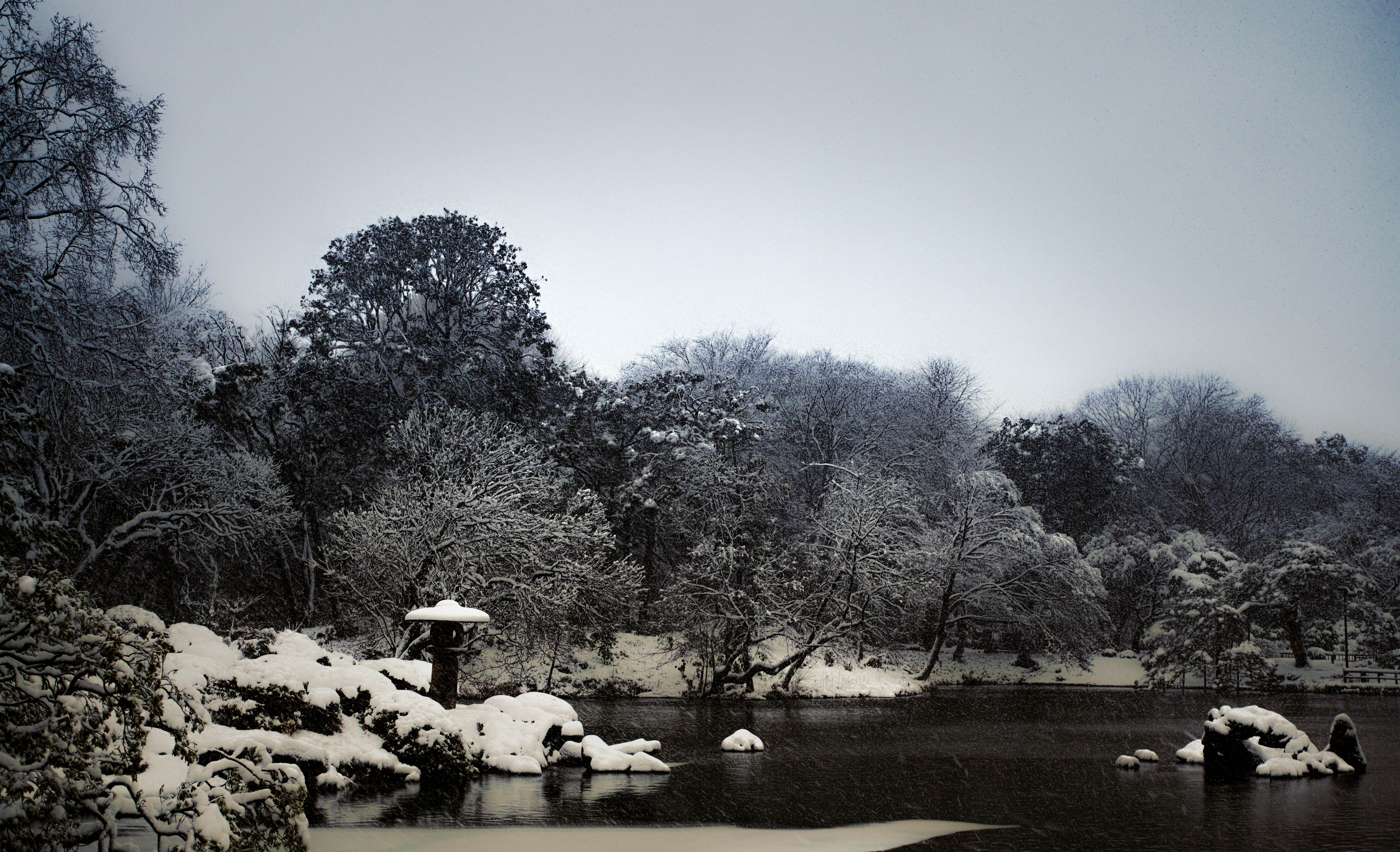 Horaijima at Rikugien garden